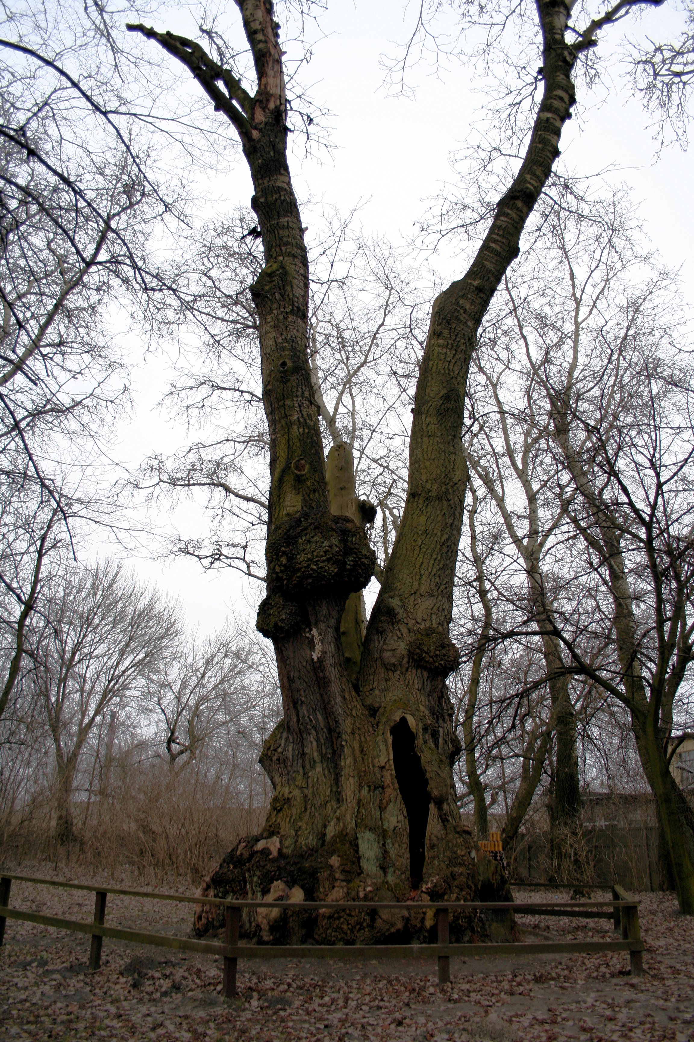 Populus alba (White Poplar) in Leszno, Masovian Voivodeship, the thickest tree in Poland.